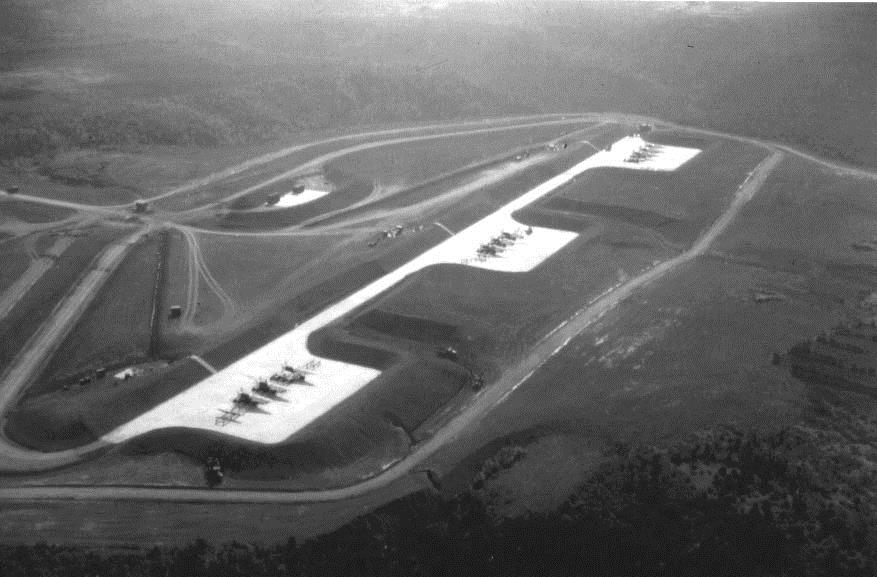 Aerial view of the B Battery Launcher section near Shu Linkou Taiwan